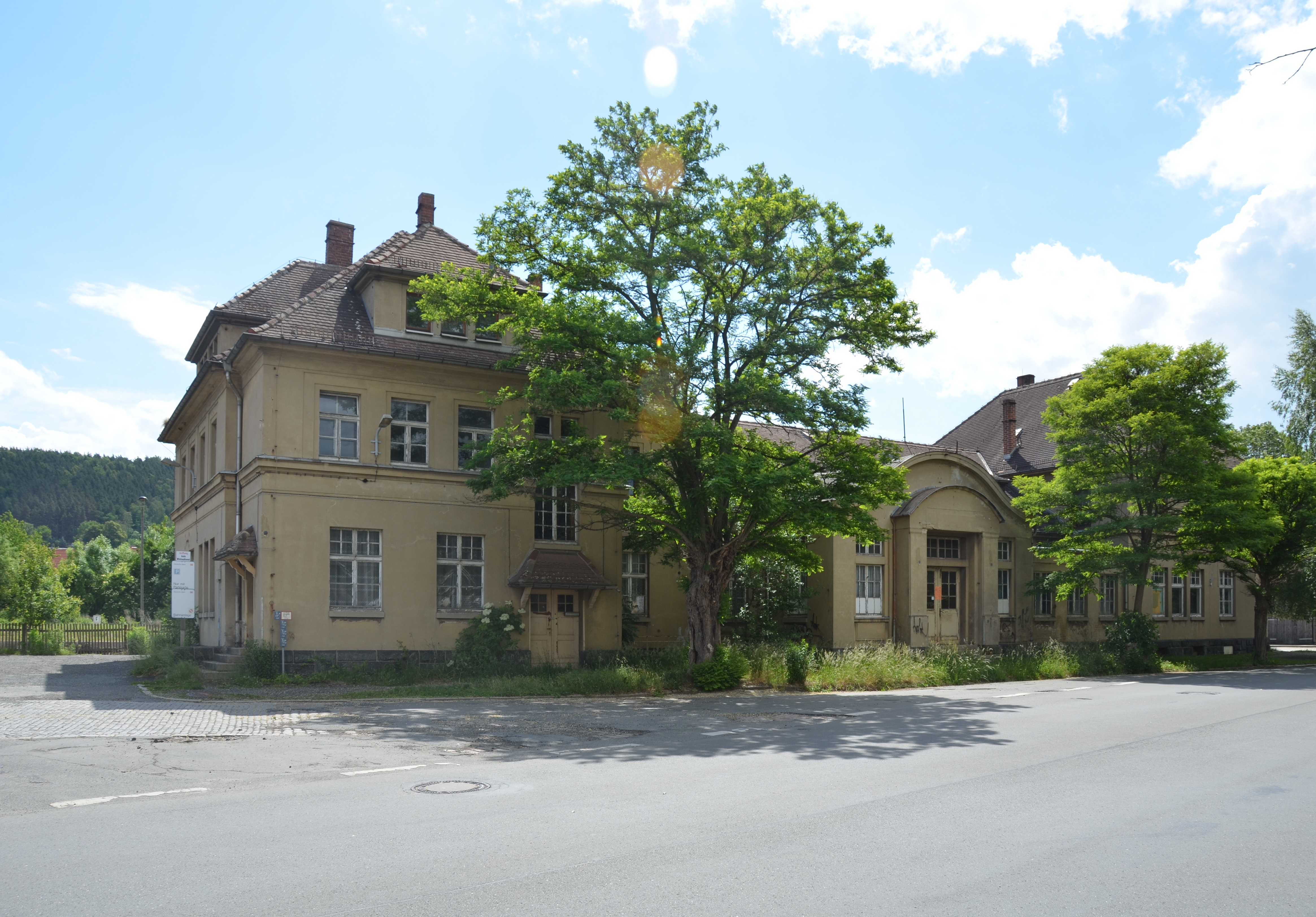 Railway station of Wünschendorf/Elster, Germany